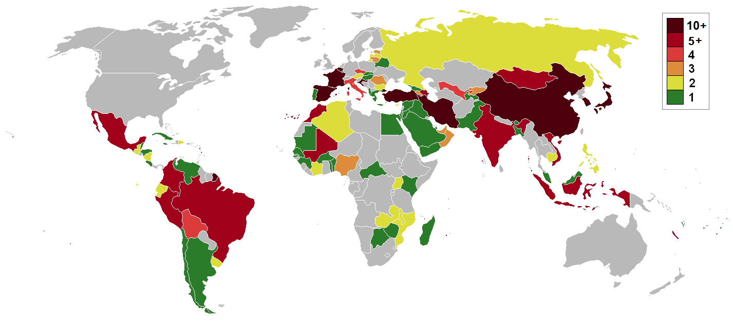 The "Masterpieces of the Oral and Intangible Heritage of Humanity" is a list maintained by UNESCO with pieces of intangible culture considered relevant by that organization. The map shows the distribution of Masterpieces by State Parties.